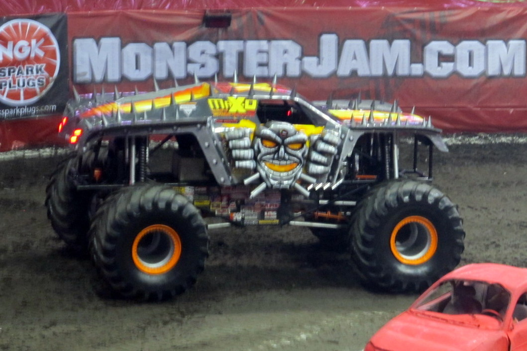 Maximum Destruction (Max D) at the Allstate arena